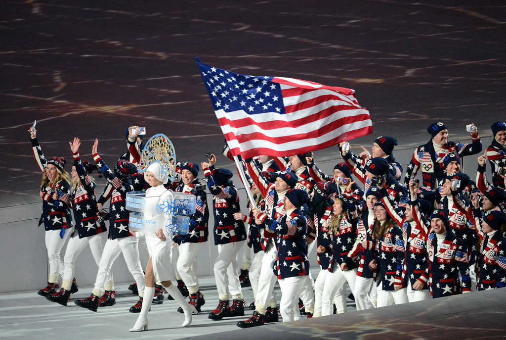 Todd Lodwick carries the flag of the United States of America, which flies directly over the head of former U.S. Army World Class Athlete Program bobsledder Steven Holcomb, reigning Olympic champion four-man bobsled driver, as Team USA marches into Fisht Olympic Stadium during the Opening Ceremony of the 2014 Olympic Winter Games on Feb. 7 in Sochi, Russia. Army WCAP luger Sgt. Preston Griffall (right behind lady in white) and WCAP bobsledders Sgt. Justin Olsen, Capt. Chris Fogt and Sgt. Dallas Robinson also are among the lead group of Americans. (U.S. Army photo by Tim Hipps)